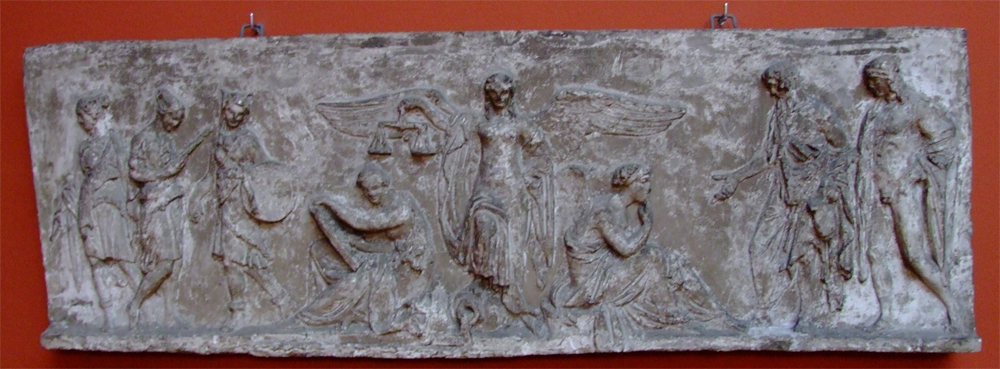 A photograph of "Mímir and Baldr Consulting the Norns" (1821-1822) by H. E. Freund, housed at the Ny Carlsberg Glyptotek, Copenhagen, Denmark.